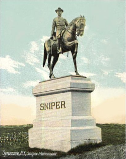 General Gustavus Sniper Monument at Schlosser Park, Syracuse, New York, 1908